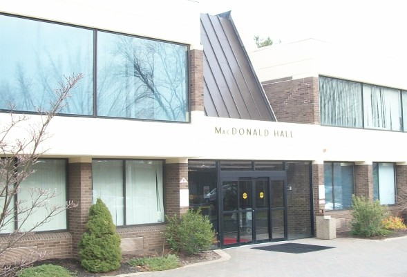 MacDonald Hall administration building at Union County College, on the Cranford, NJ campus.